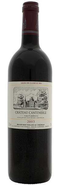 Photograph from released into the public domain worlwide by the author (as stated on